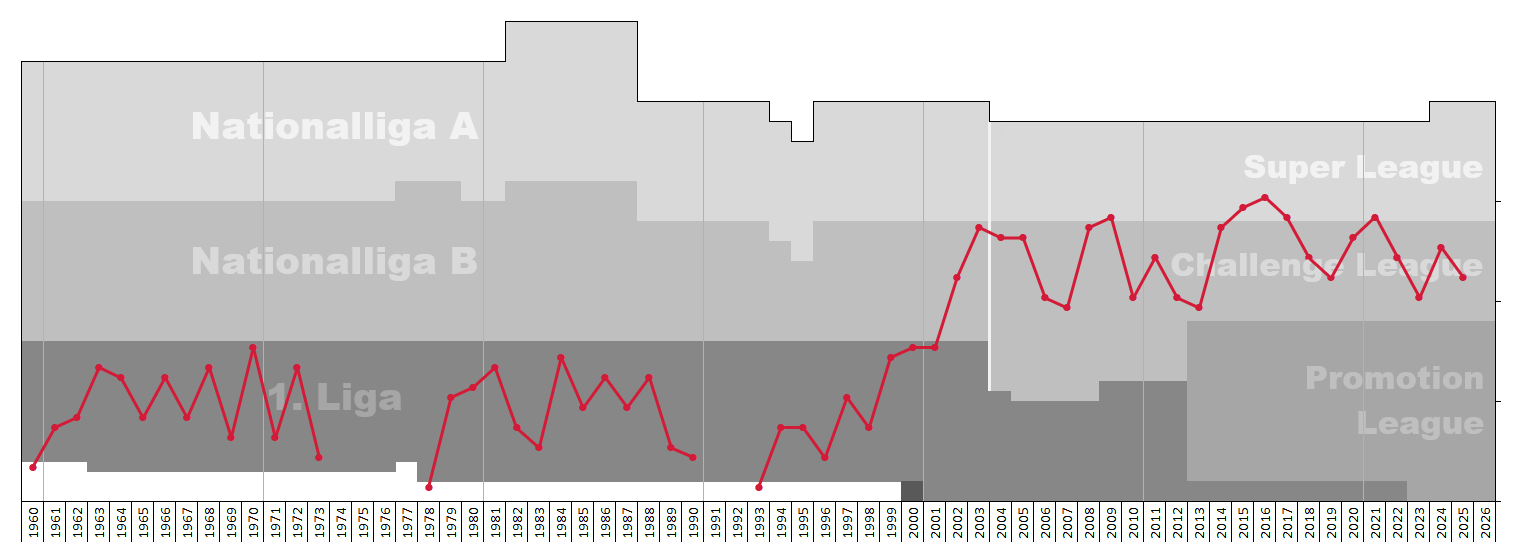 Chart of end-season table positions for FC Vaduz in the Swiss football league system. Data source: RSSSF